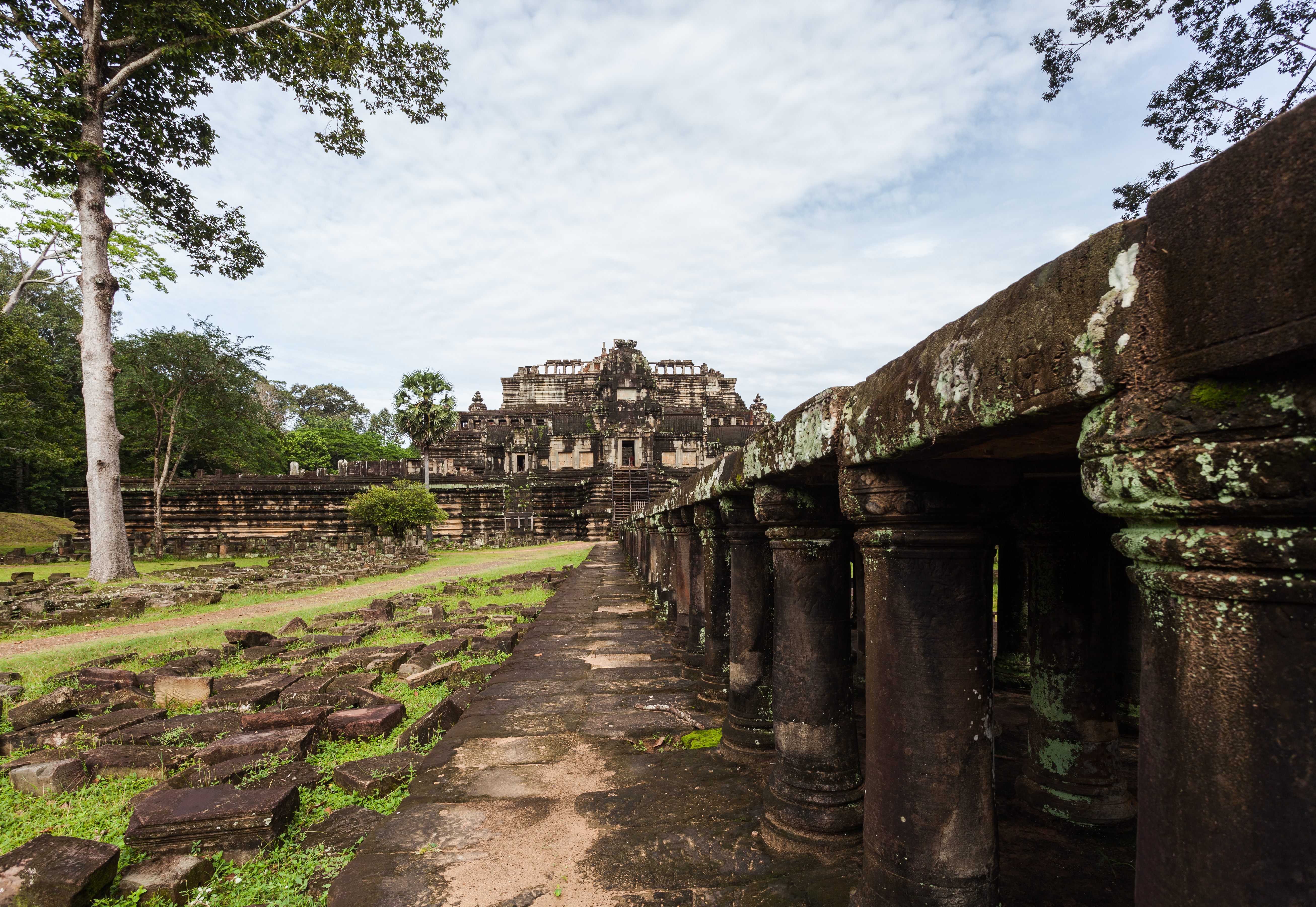 Baphuon, Angkor Thom, Cambodia